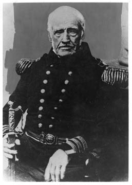 Capt. John Percival